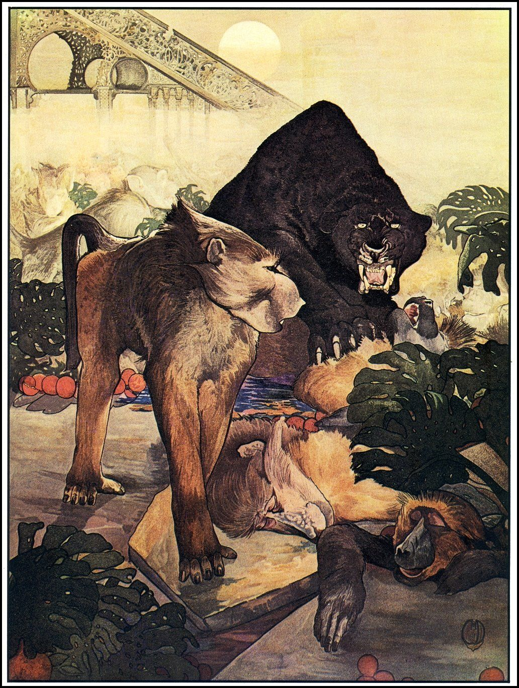 Illustration from 1913 edition of The Jungle Book